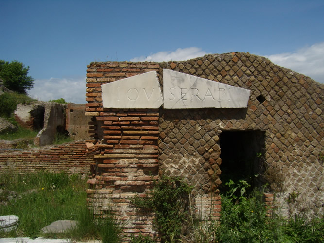 Inscription at the Serapis temple in Ostia